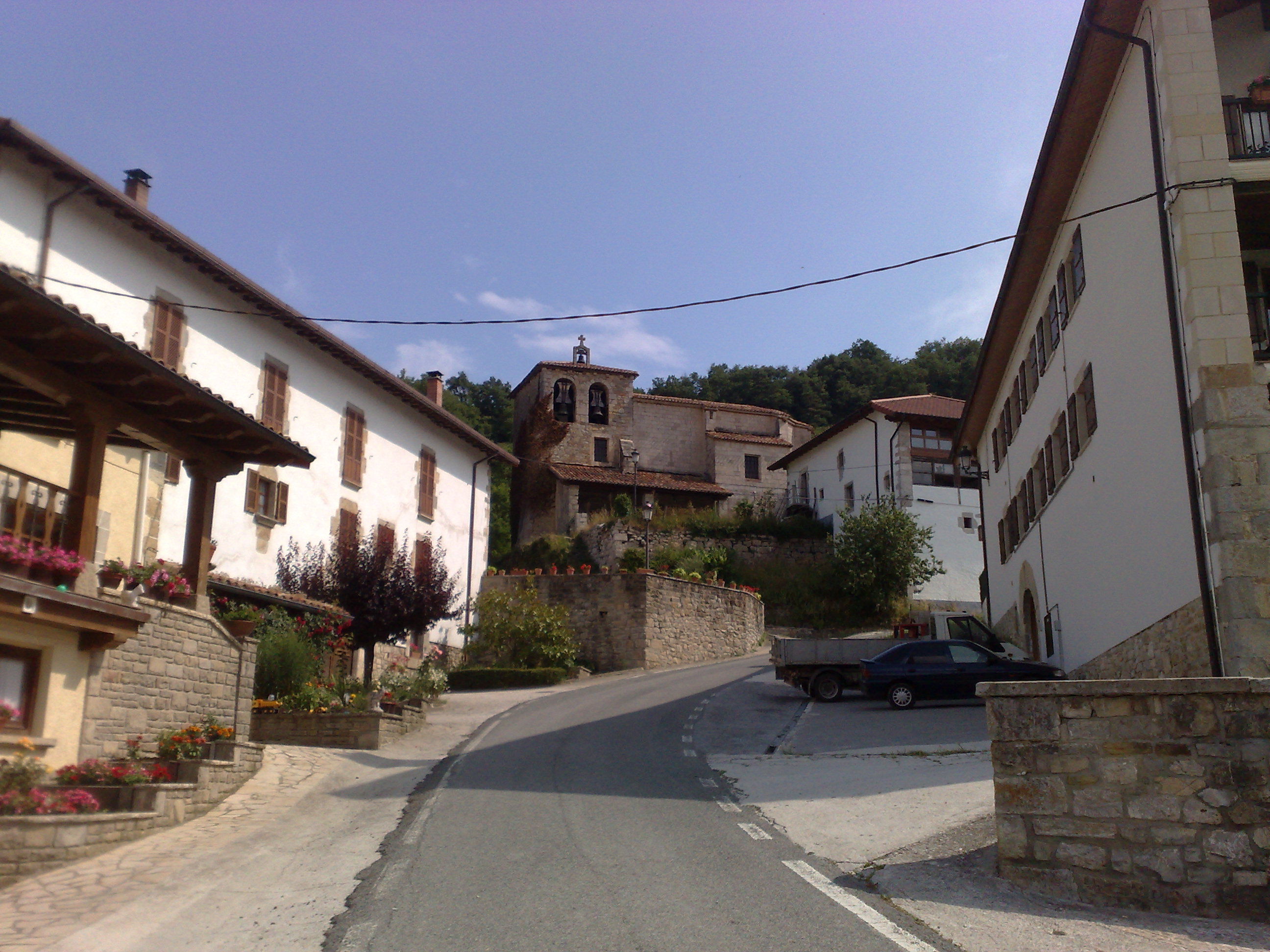 Main street in Erripa (es Ripa), Odieta, Navarre, Basque Country.